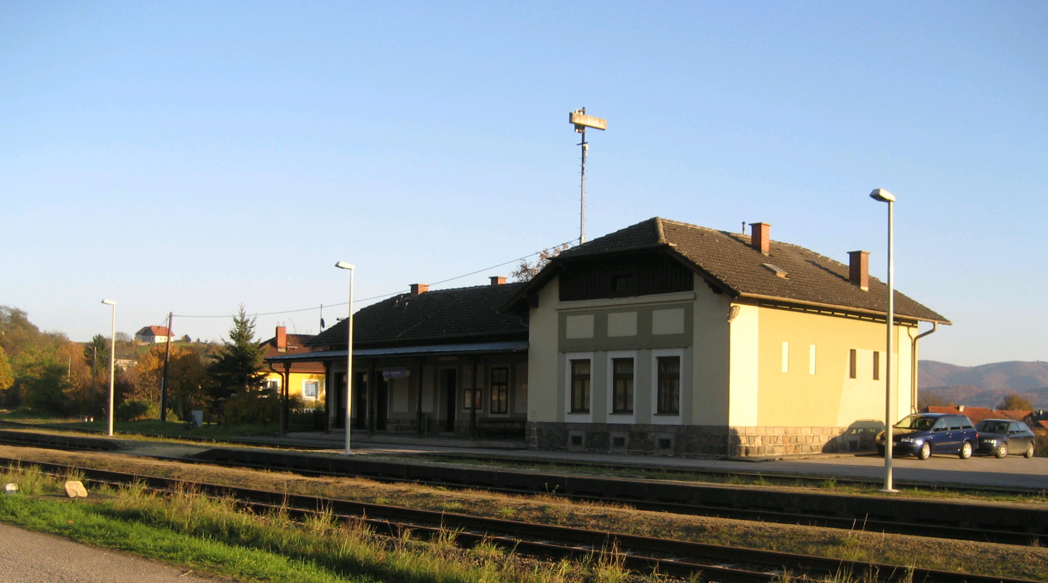 Klein Pöchlarn train station in Lower Austria